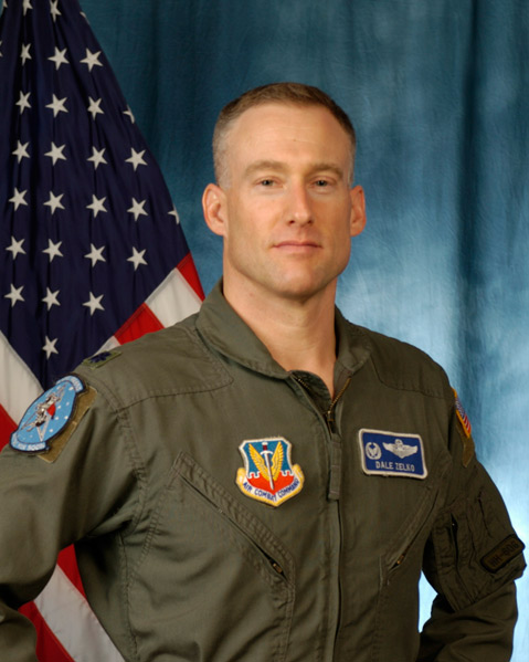 Lt. Colonel Dale Zelko was pilot of F-117A that was shot down over Federal Republic of Yugoslavia.